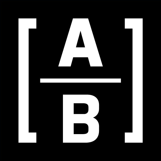 AB Logo (AllianceBernstein L.P.)